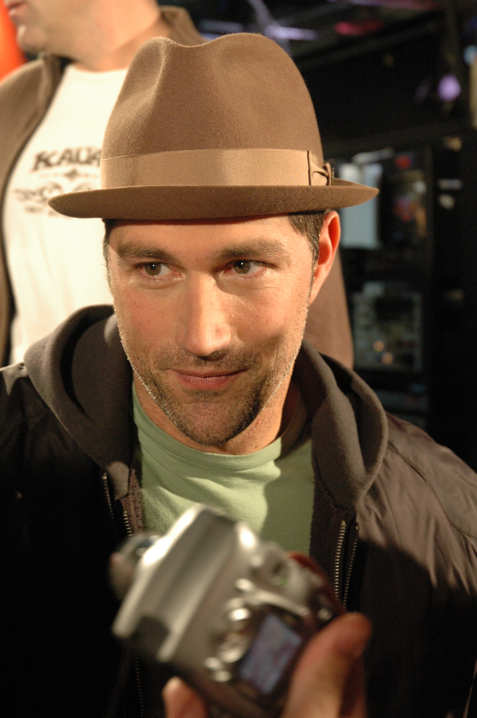 Matthew Fox outside of City TV in Toronto during an open autograph session